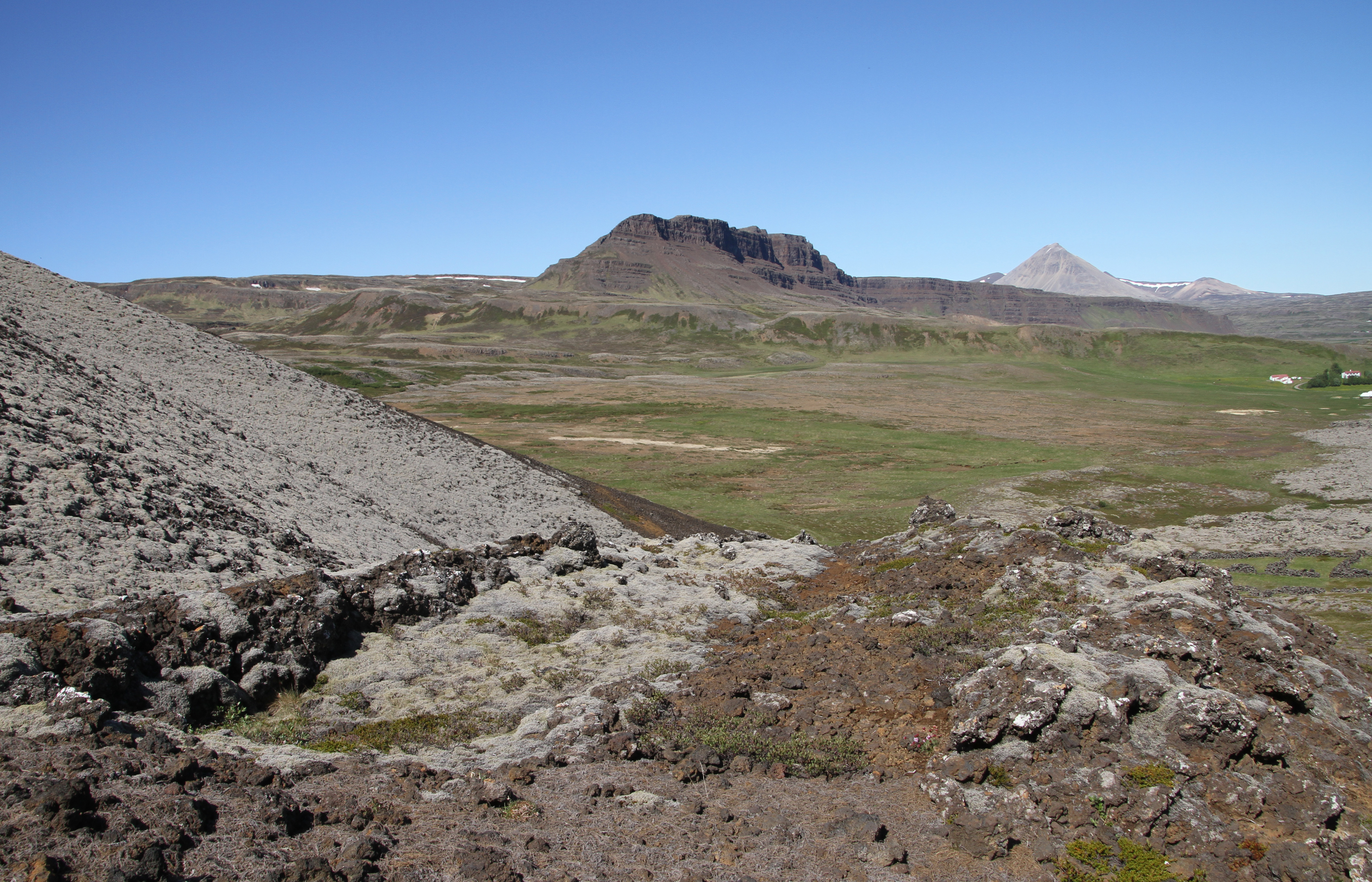 Grábrók volcanic field